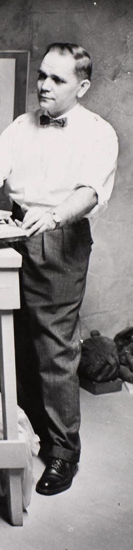 sculptor Leo Mol in his Winnipeg studio